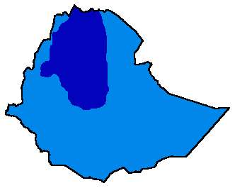 Ethiopian Empire's territorial expansion during Menelik II reign. Dark blue : Ethiopian Empire before conquests Light blue : Ethiopian Empire after conquests